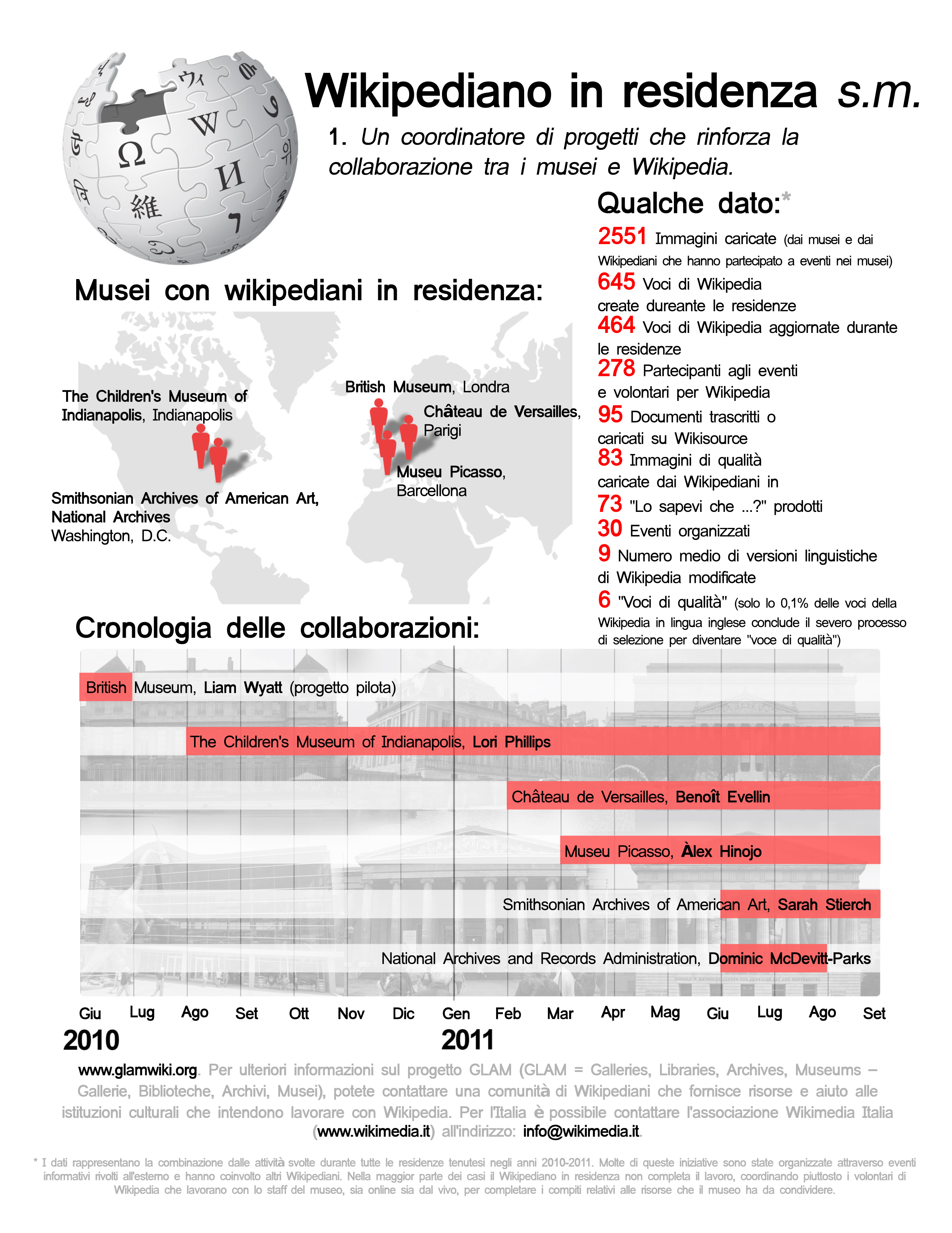 An infographic depicting information about most of the Wikipedian in Residence projects taking place between 2010 and 2011. Data was compiled July 15, 2011.